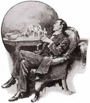 Illustration of the Sherlock Holmes short story A Case of Identity, which appeared in The Strand Magazine in September, 1891. Original caption was "I FOUND SHERLOCK HOLMES HALF ASLEEP.